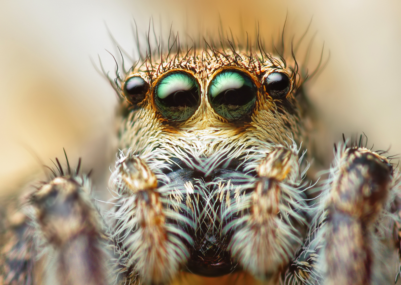 I headed out this afternoon with high hopes of getting a nice shot of a male Eastern Blue Bird that hangs around one of my bug spots - but he wouldn't let me get anywhere near close enough to take any worthwile photos. Maybe next time. But I did find this little (4-5mm) Habronattus coecatus female hanging out on a large piece of bark - and she cooperated just enough for me to get a few photos. The image above was cropped from a photo taken with the 28mm reversed on some extension tubes at f/8. Focus stacked from two photos.